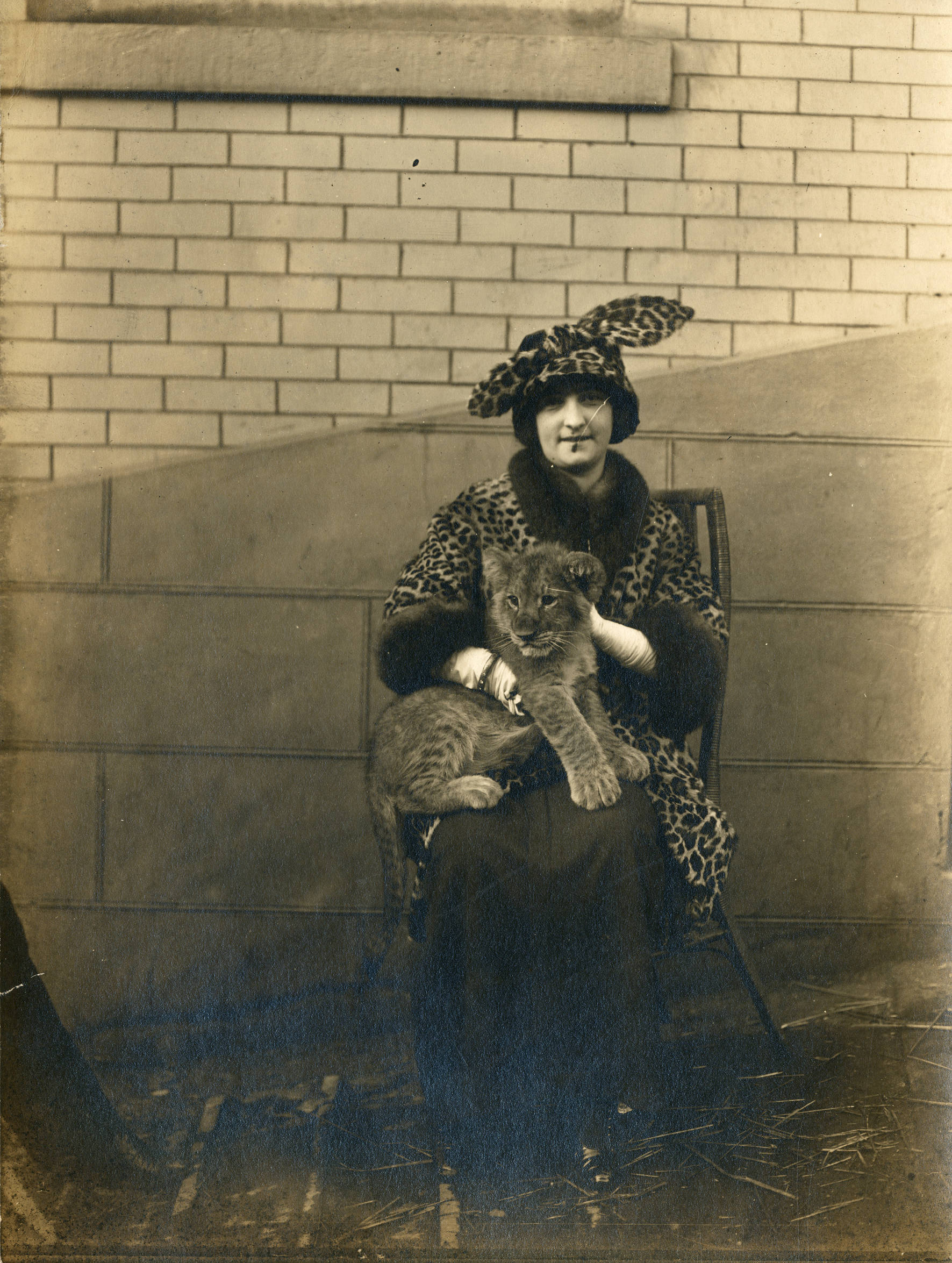 Lois Pantages, stage violinist Subjects: musicians